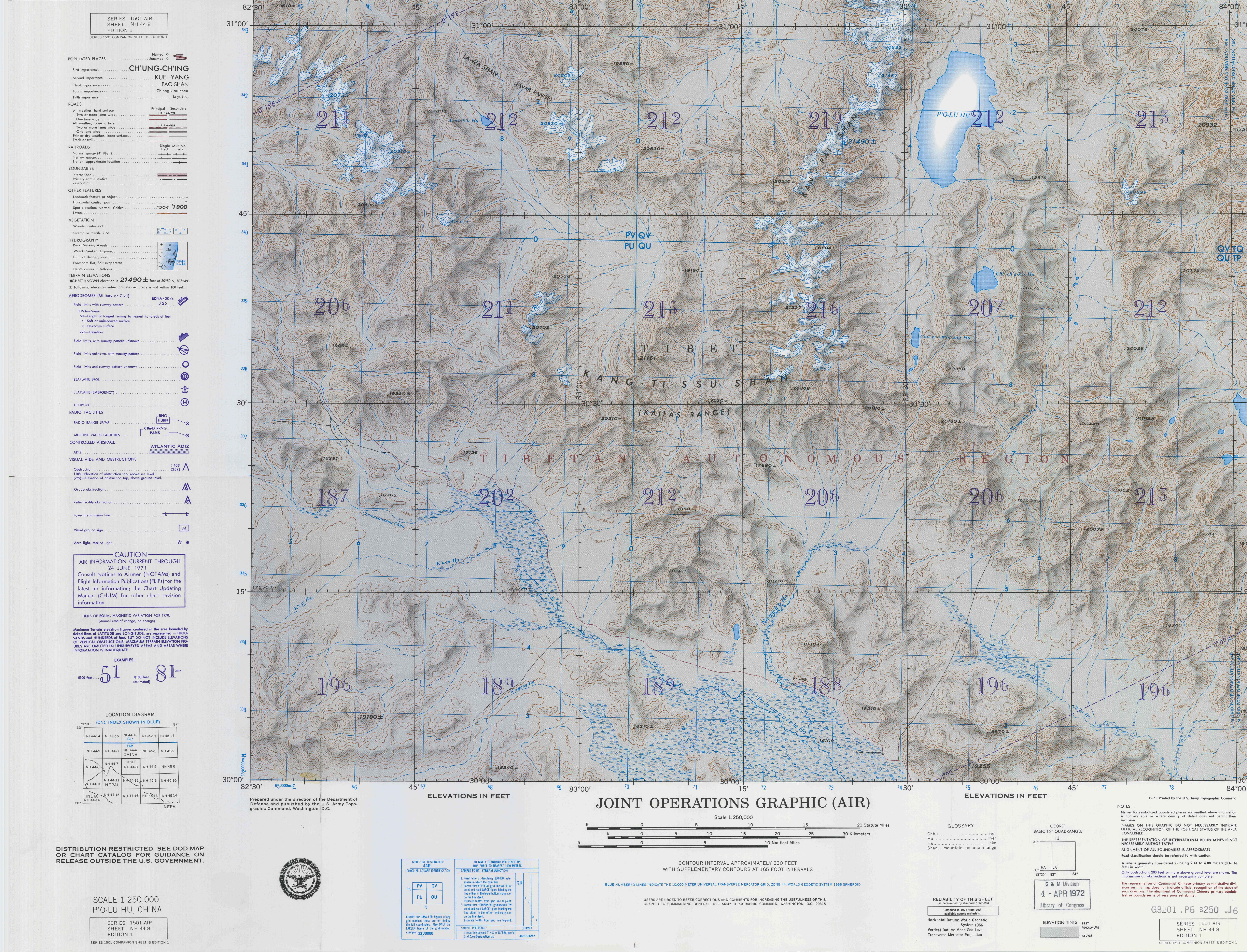 NH-44-8 P'O-LU HU, China